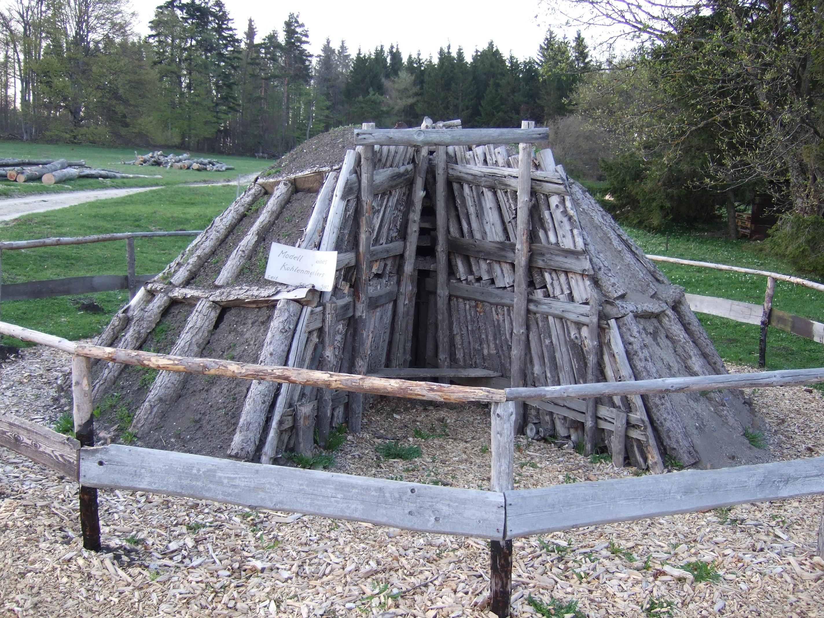 modell of charburner clamp - Albstadt Onstmetting